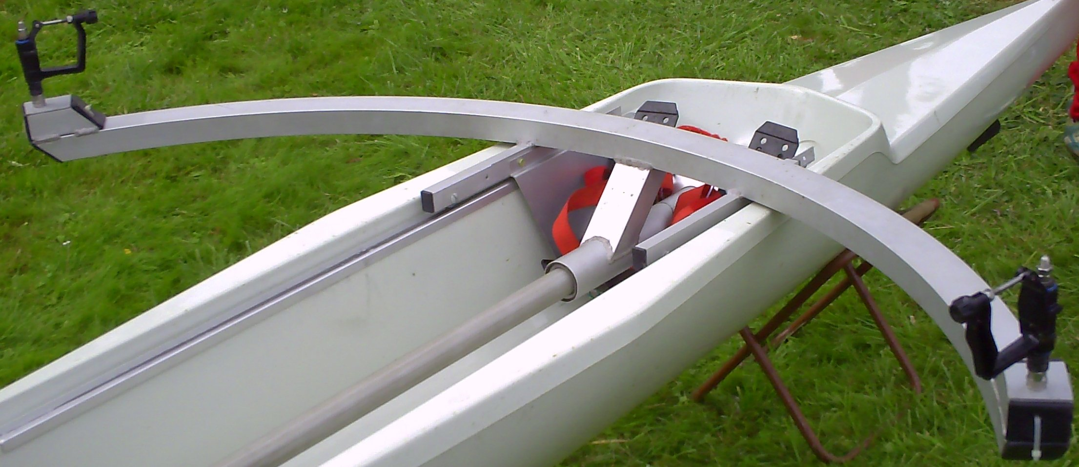 Rigger of Pohlus Boat No 93/142